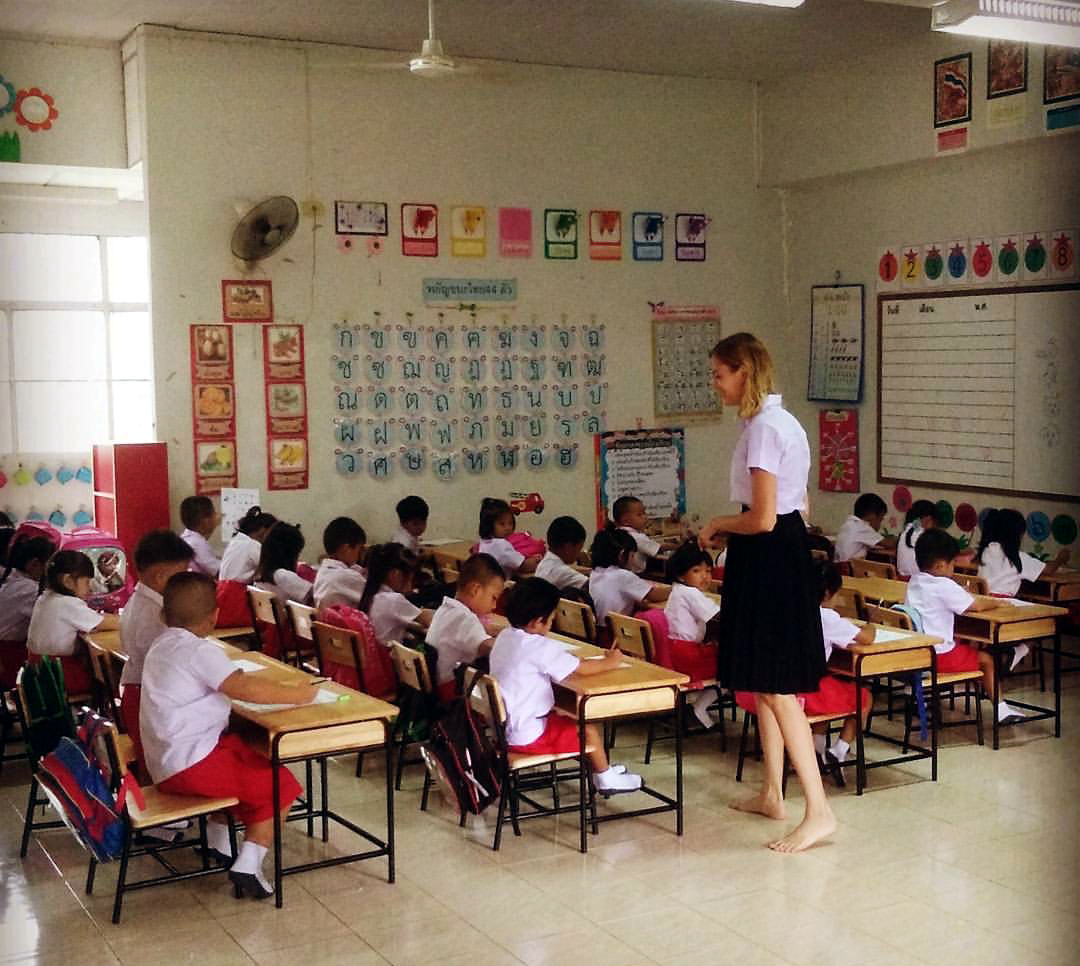 American barefoot English teacher, teaches a kindergarten class an English lesson in Tha Bo, Thailand, June 2016